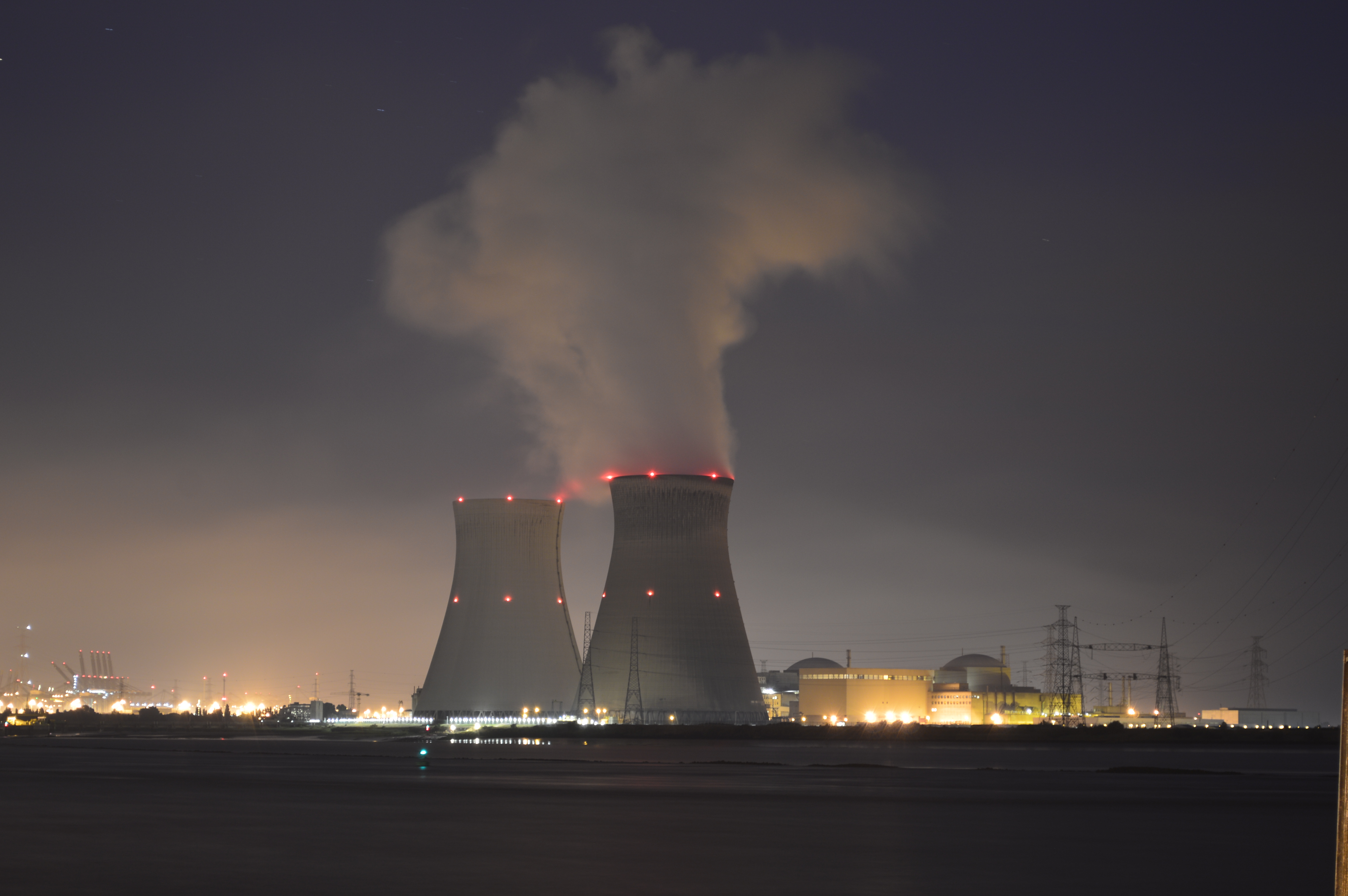 A panoramic photo of the Doel Nuclear Power plant, seen from the right bank of the Scheldt river in Antwerp.